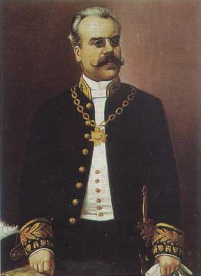 Portrait of Adriano de Paiva Brandão, 1st Count of Campo Belo (1847-1907), Portuguese physicist and politician.